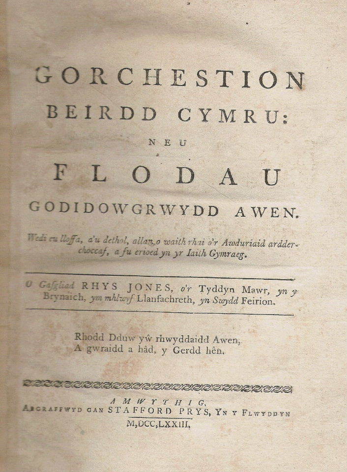 Title page of Gorchestion Beirdd Cymru, an anthology of medieval Welsh poetry edited by Rhys Jones and published in 1773. A milestone in the history of Welsh scholarship.